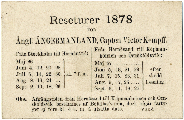 Travelling schedule with S/S Ångermanland